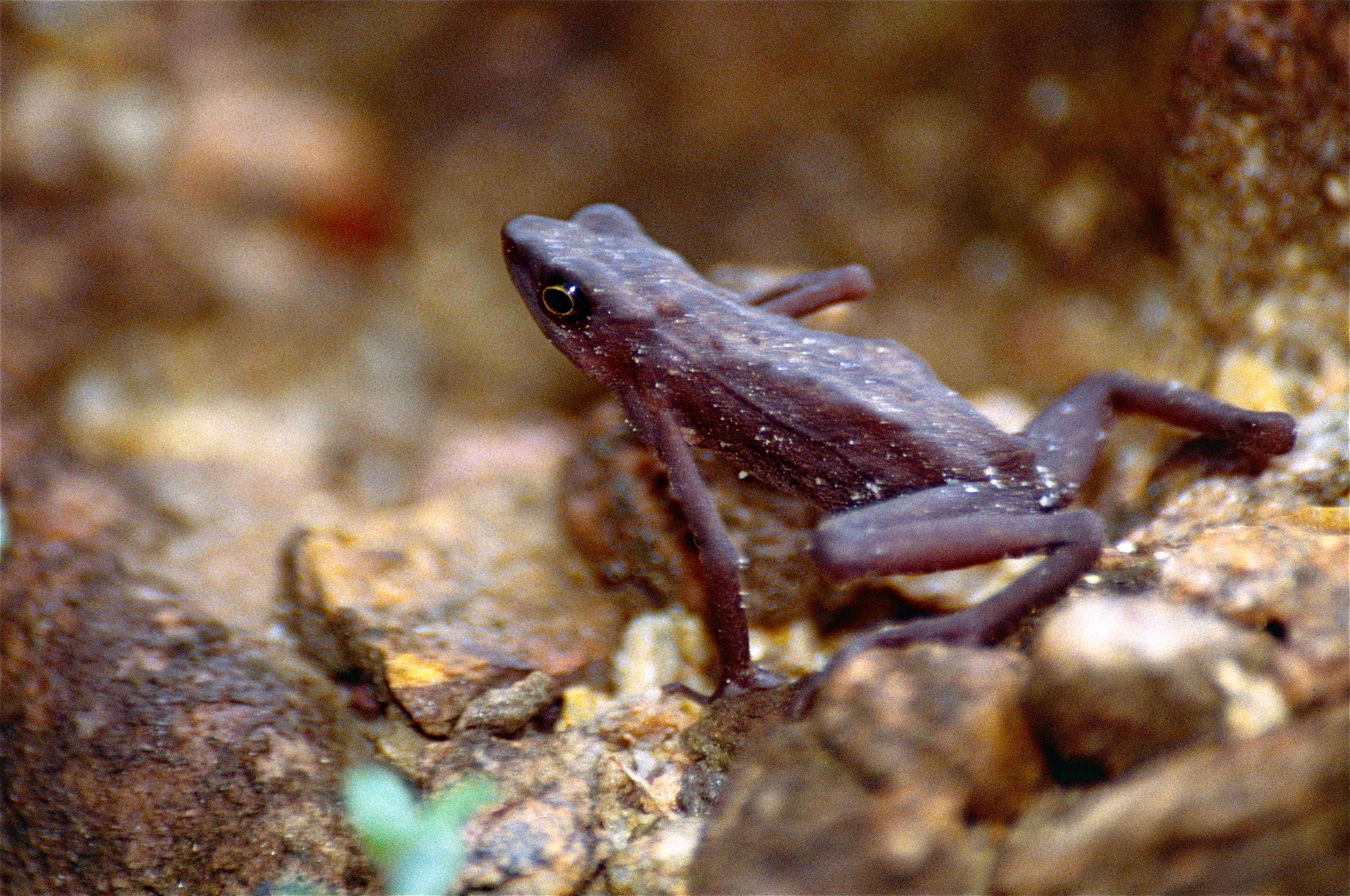 Route de Regina, Guyane, FRANCE Scanned Slide from 1998